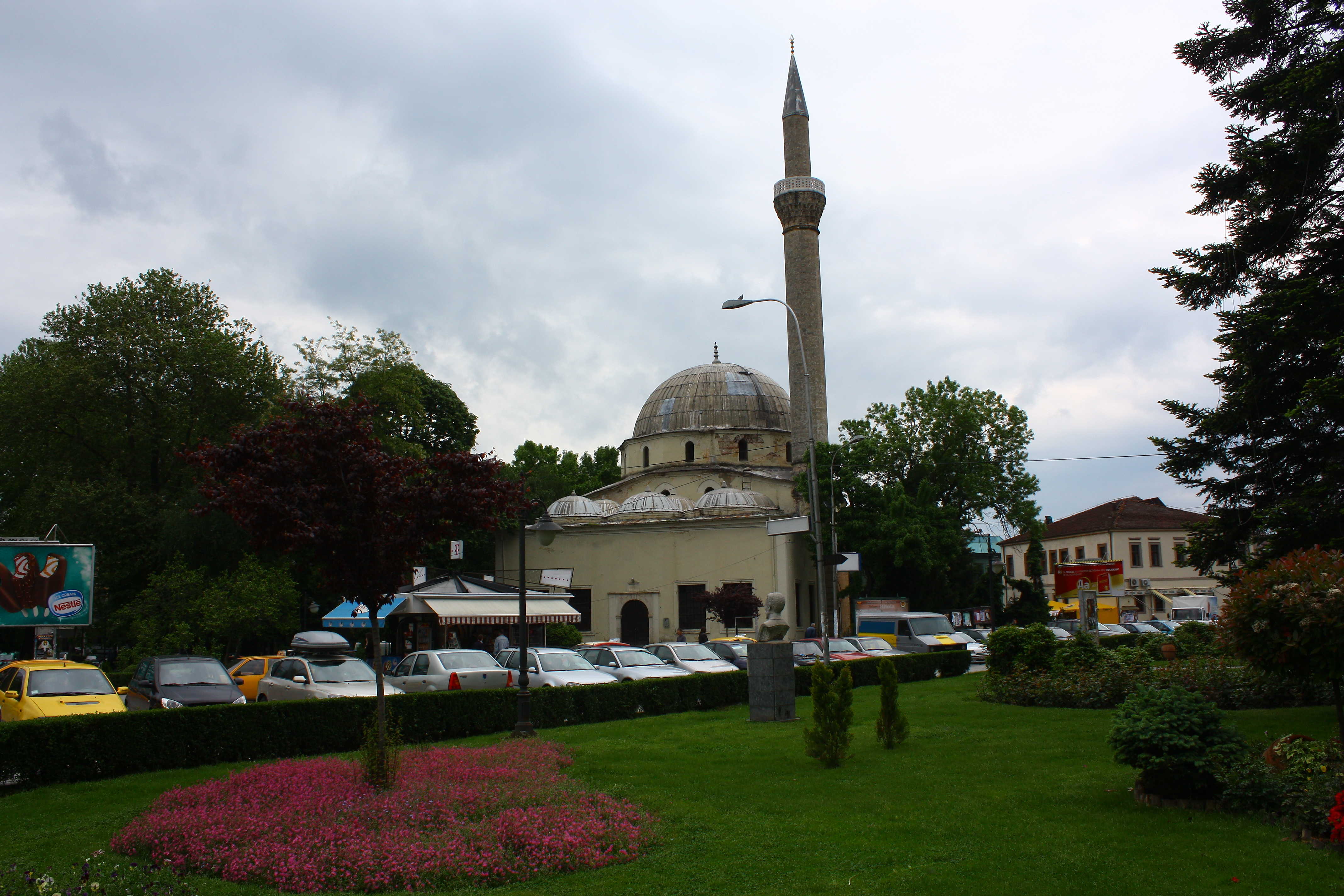 Bitola, Macedonia